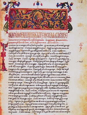 Biblia Gennadiana. 1499. Beggining of the Book of Genesis